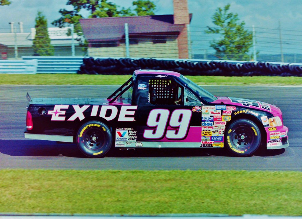 Chuck Bown drives the No. 99 Roush Racing Ford at Watkins Glen International in the Parts America 150, August 24, 1997.